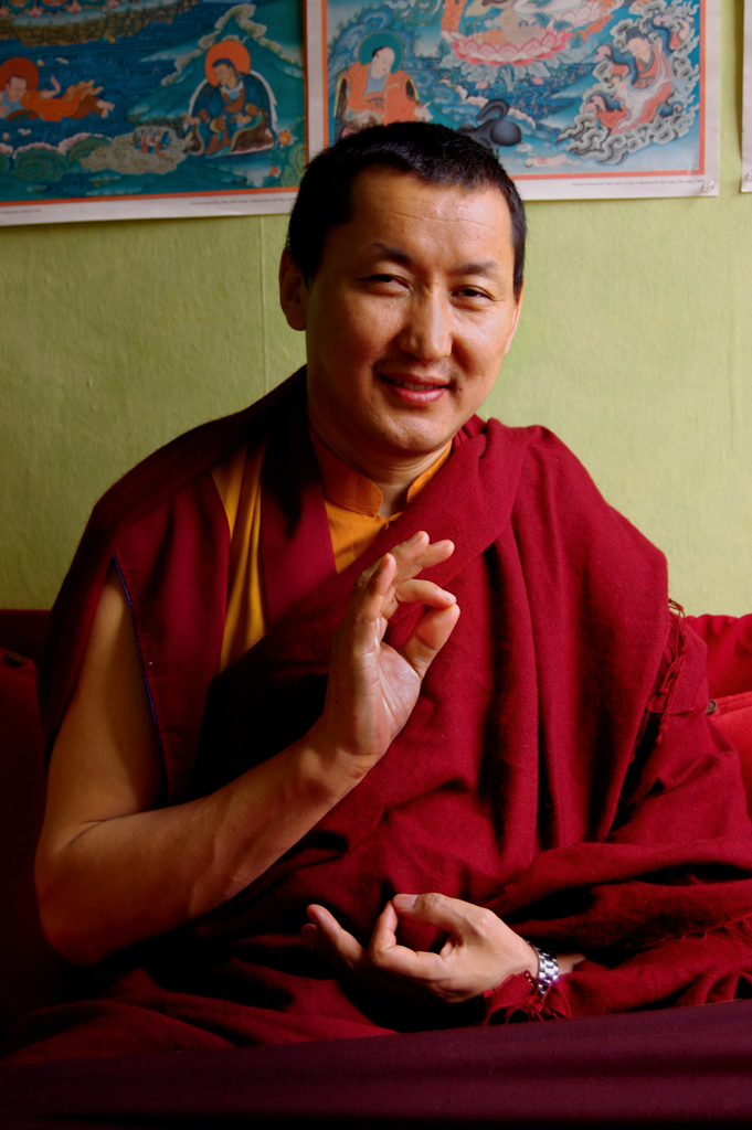 Photo of Dzogchen Ranyak Patrul Rinpoche in Dharma City, Florennes, Belgium. Summer 2011